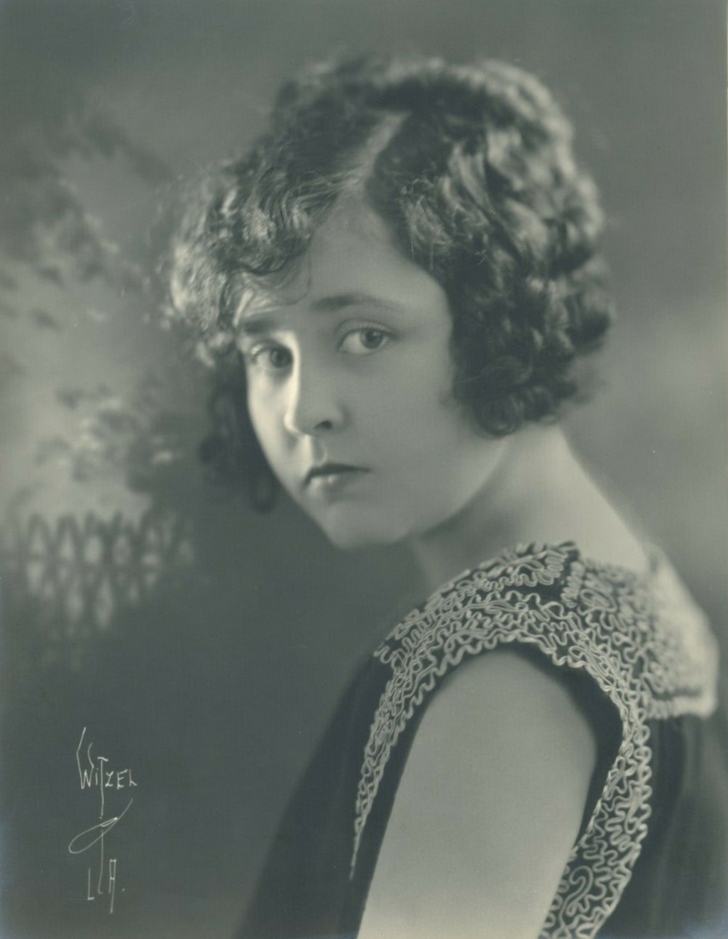 Portrait of American actress Gloria Joy (1910–1970) by Albert Witzel (Witzel Studios, LA).